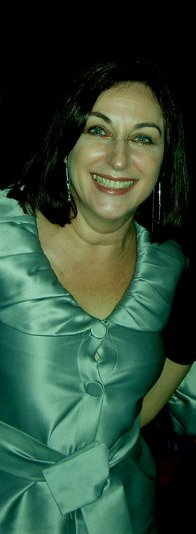 Lu Grimaldi is an brazilian actress.